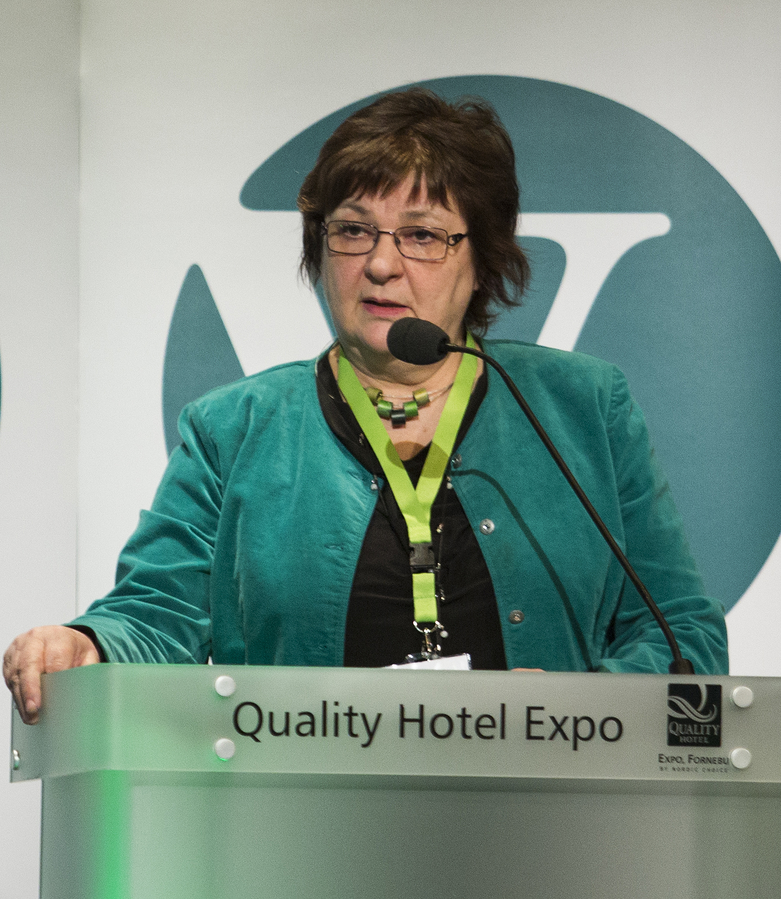 May Valle, Nordland Venstre. Foto: Jo Straube